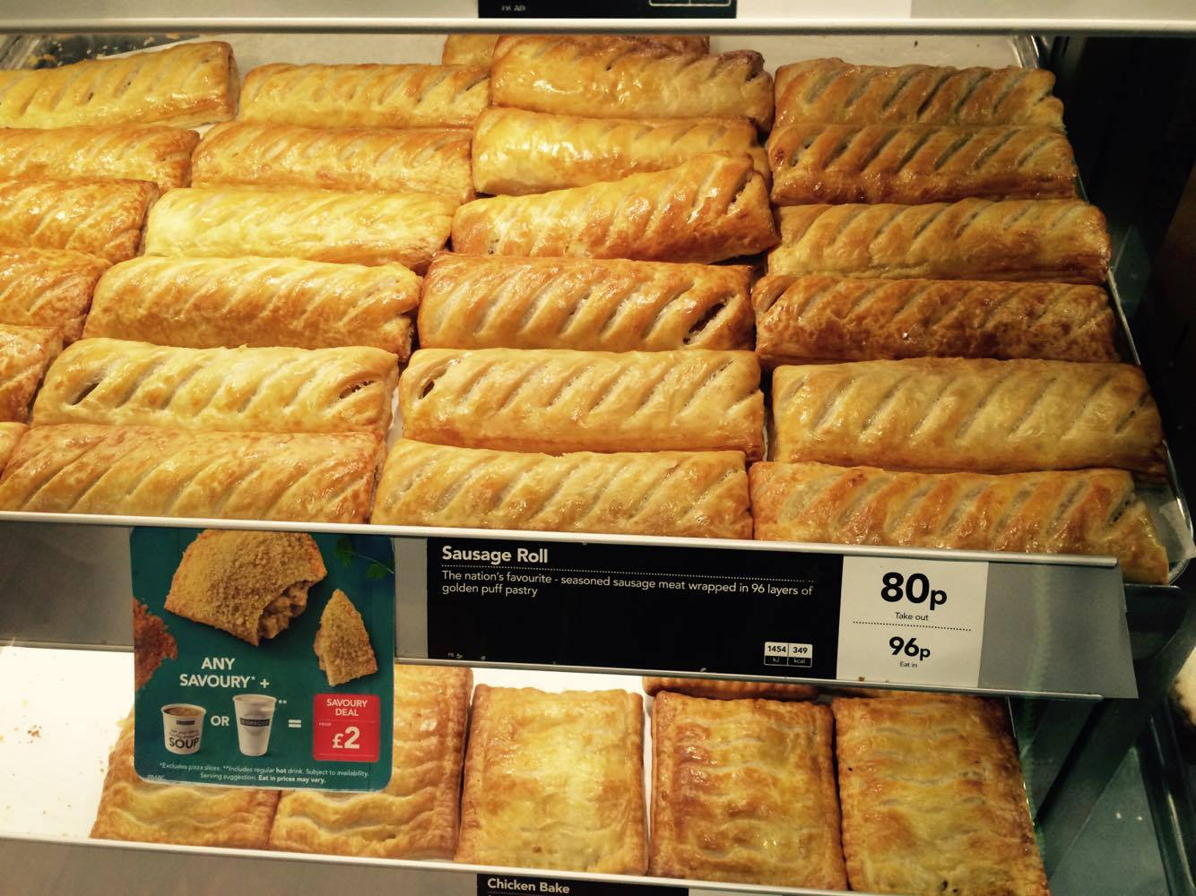 An example of Gregg's point-of-sale display